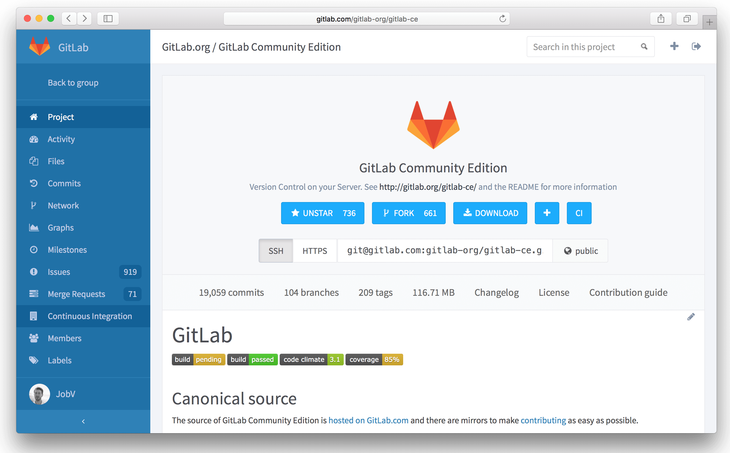 Gitlab user interface.